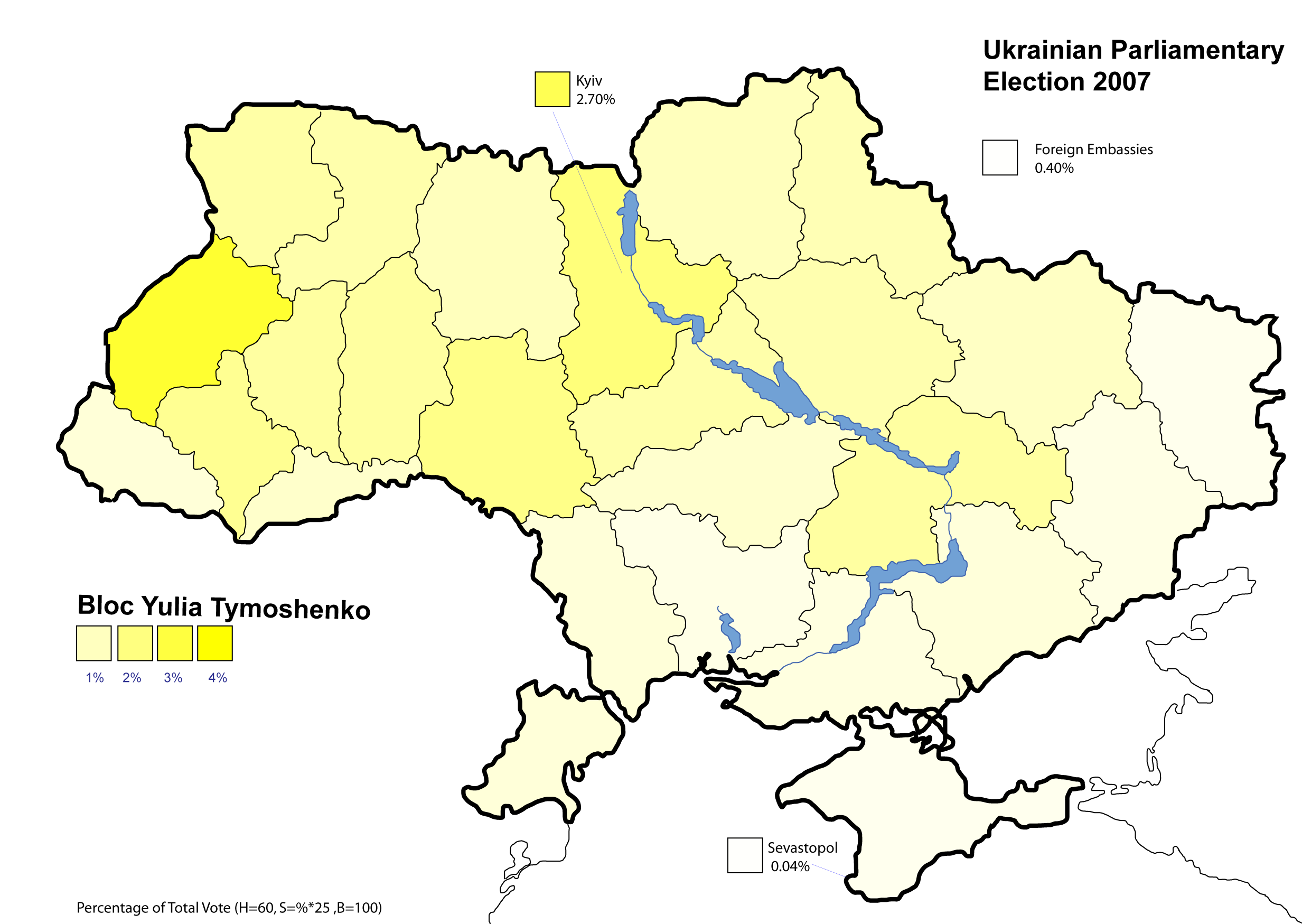 Ukrainian Parliamentary Election 2007 (BYuT) Percentage of total national vote (minimal text)